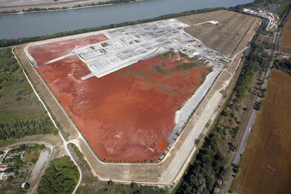 Aerial photo of the red mud mining waste reservoir in Almásfüzitó, Hungary